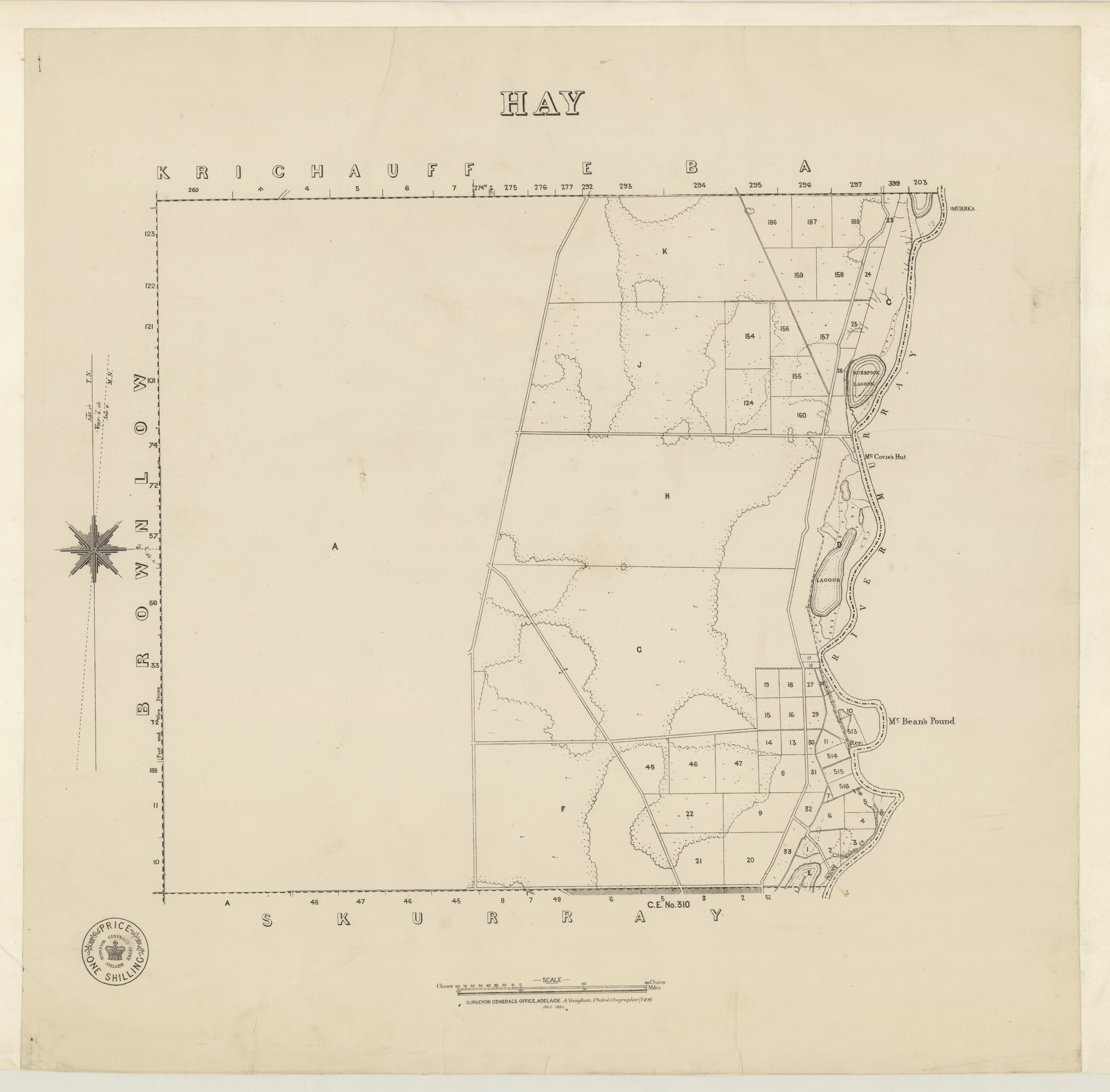 View additional information for this map Filename: map830bje63360_hay1892_ds.jpg